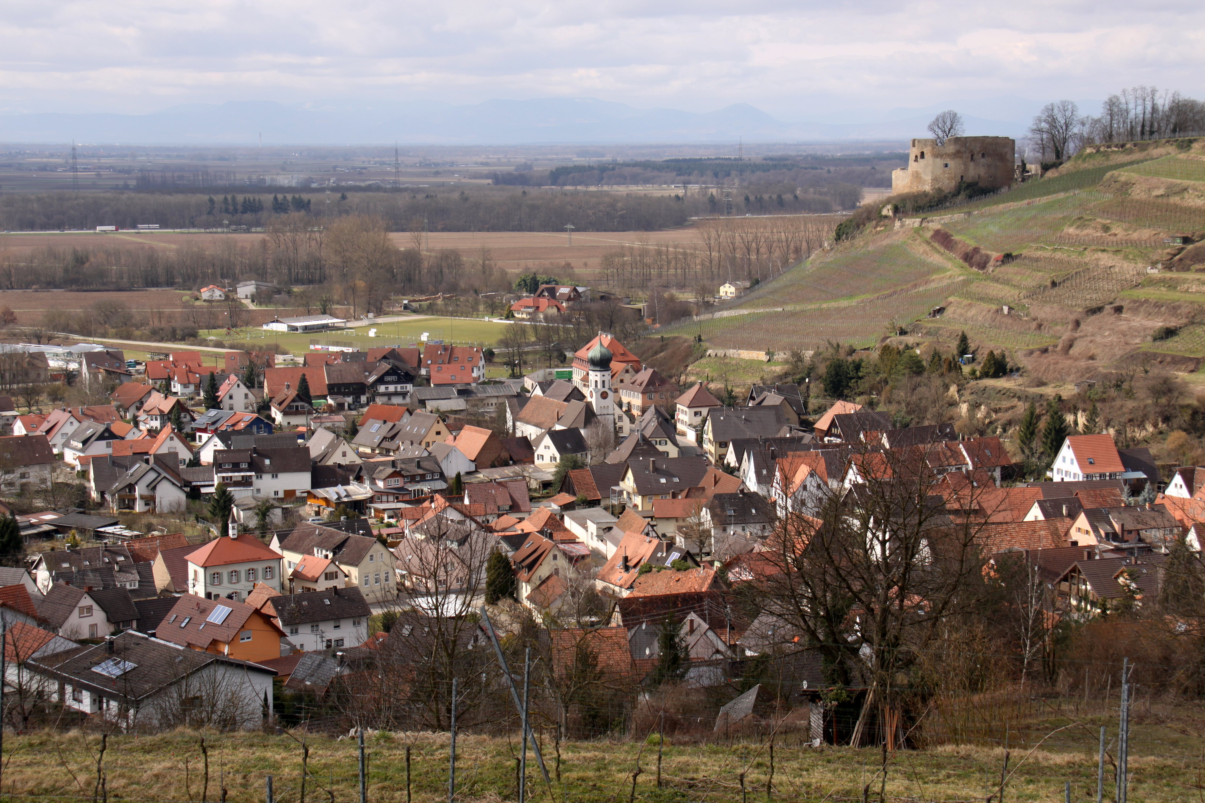 Hecklingen, part of Kenzingen, Germany